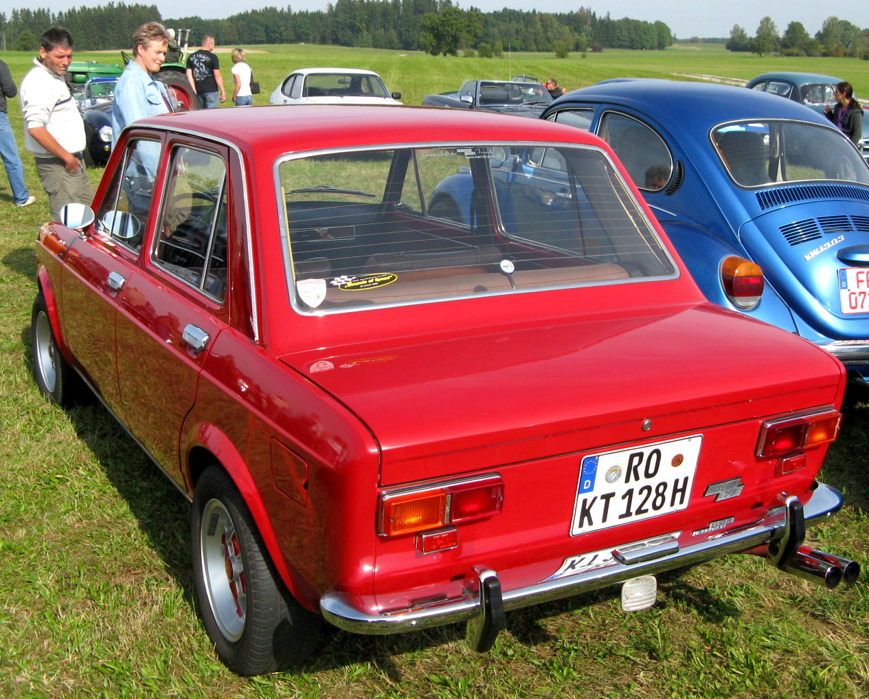 Fiat 128 at vintage vehicle & airplane show at Jesenwang (Bavaria)